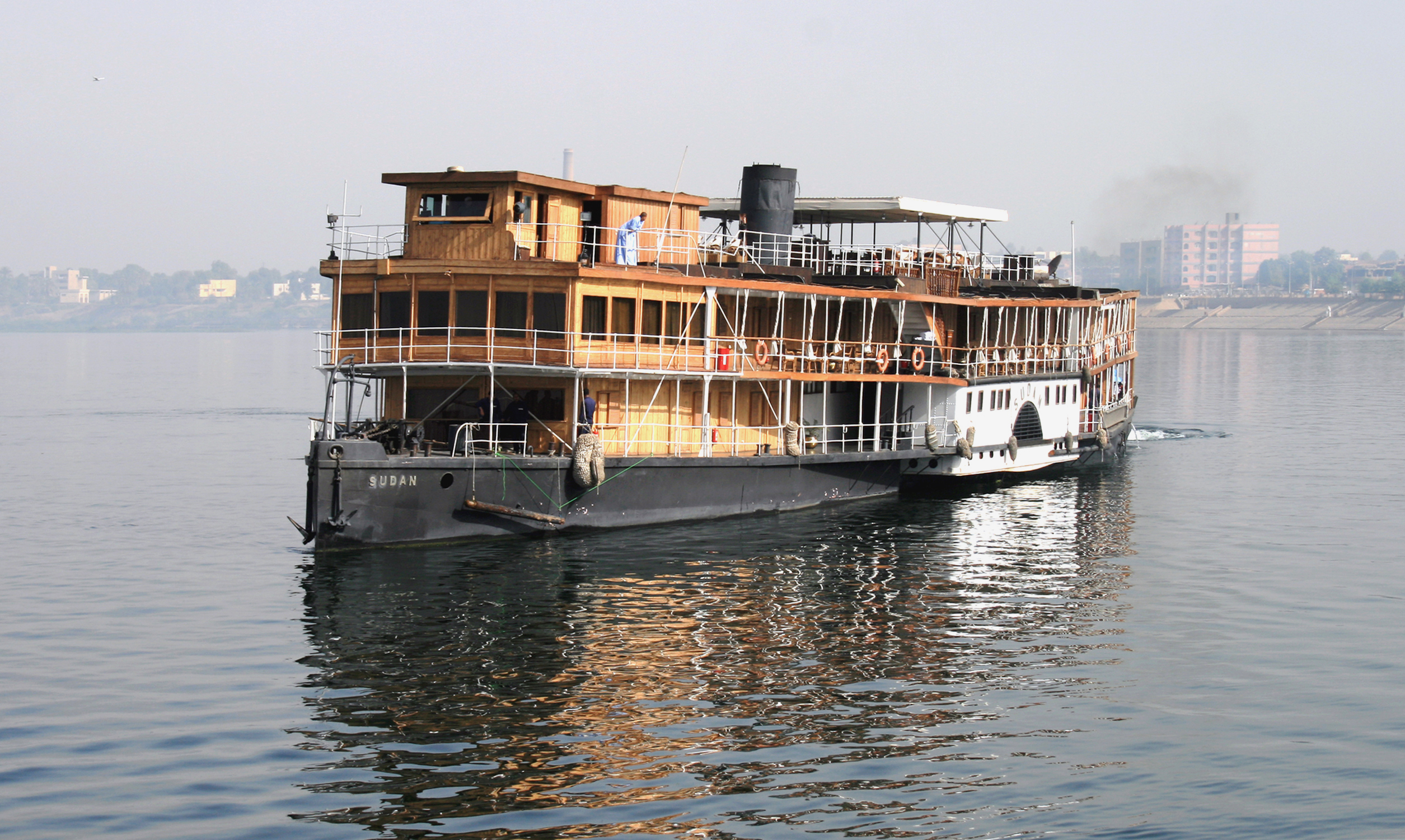 Old ship on Nile river in Aswan, Egypt, corrected version